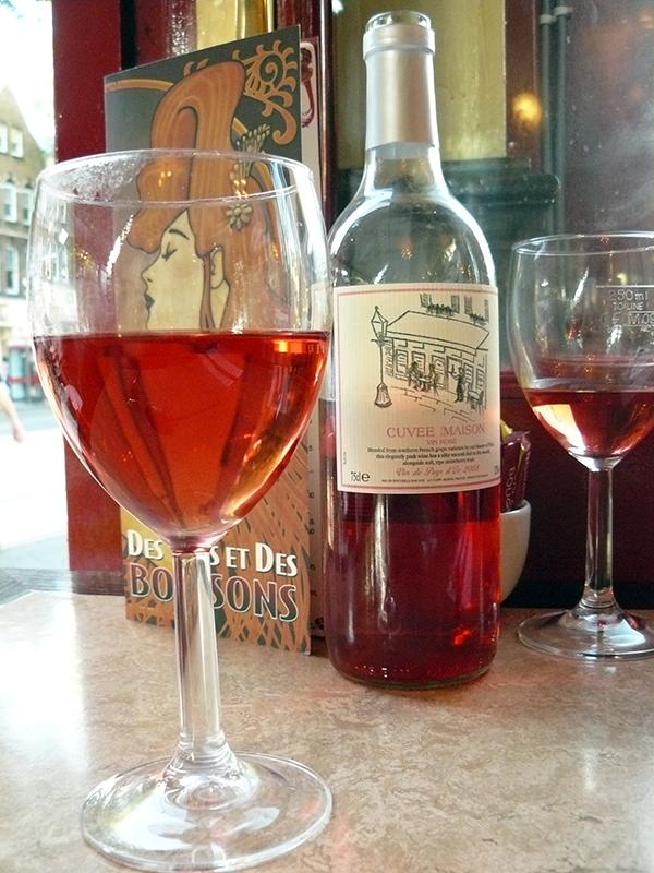 A French rose wine from the Vin de Pays d'Oc region of the Languedoc.